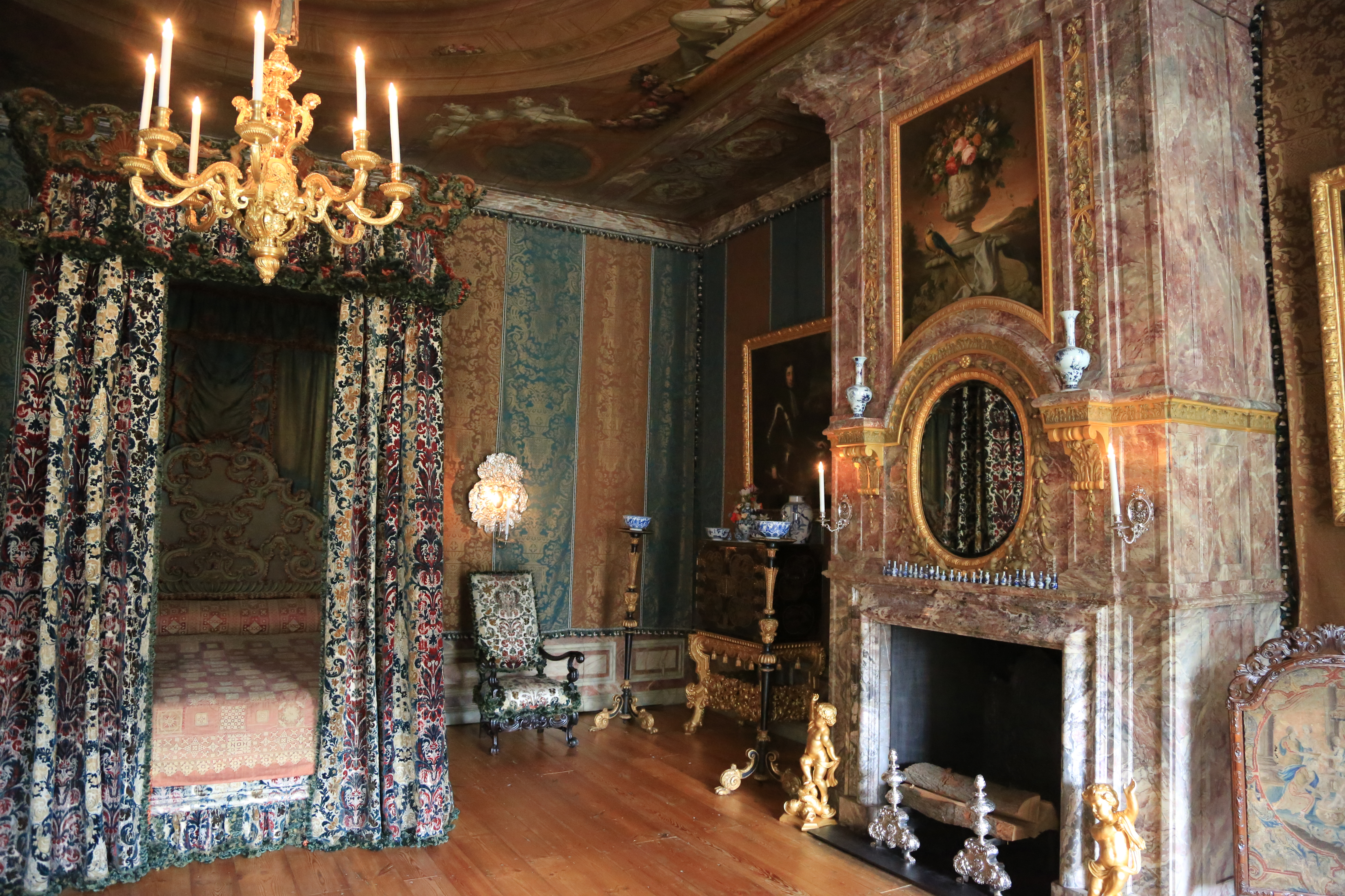 Het Loo Palace - Mary Stuart's bedroom